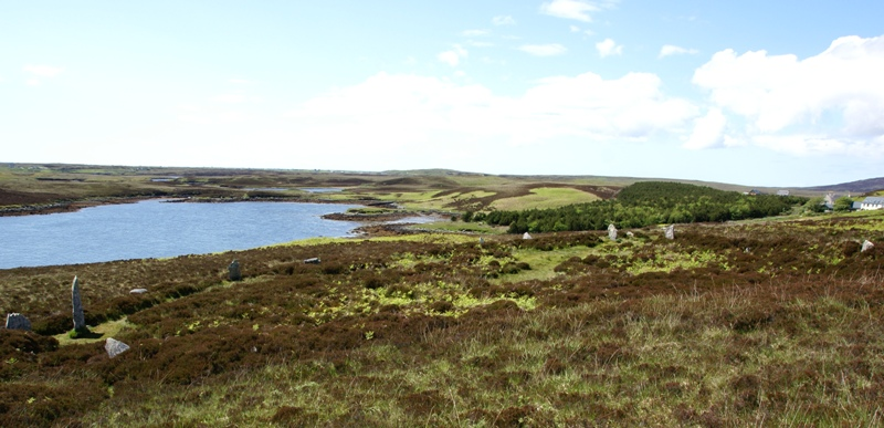 Pobull Fhinn, North Uist, Outer Hebrides, Scotland - view from the north